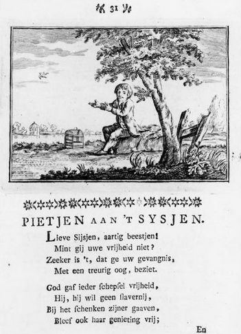 Page of a textbook showing a boy releasing his pet bird, with a poem that ends "... God gave every creature freedom / He rejects all slavery /His example I shall follow, / Choosing now to set you free